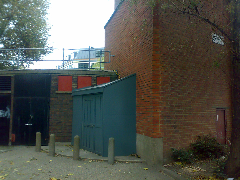 The rear entrance of the disused City Road tube station. Taken 7th November 2007 by McDRye (talk) 01:39, 12 December 2007 (UTC)